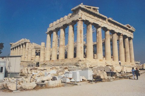 Akropolis in Greece